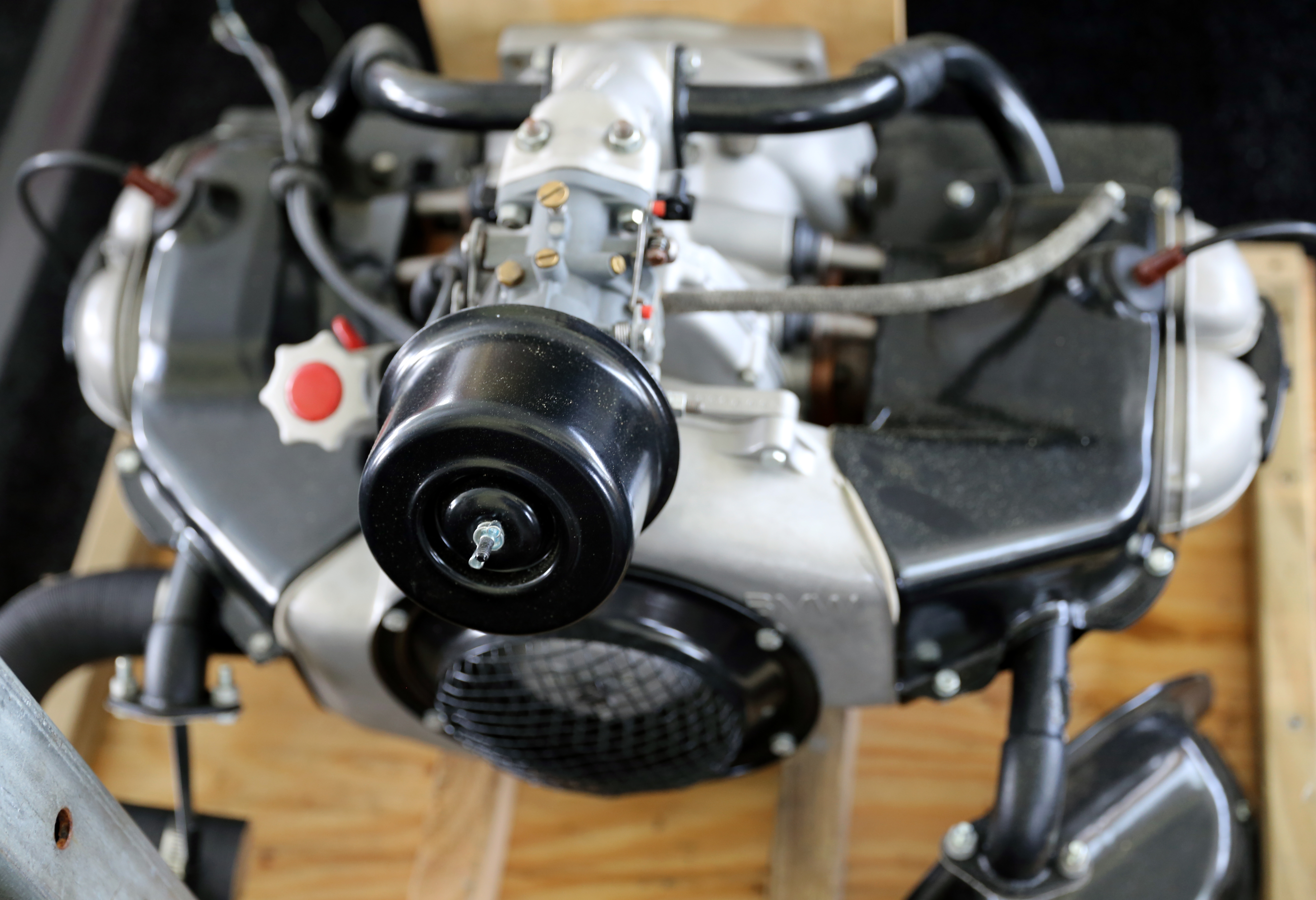 Engine (spare) of a 1960 BMW 600 at the Bonhams auction attached to the 2013 Greenwich Concours d'Elegance.